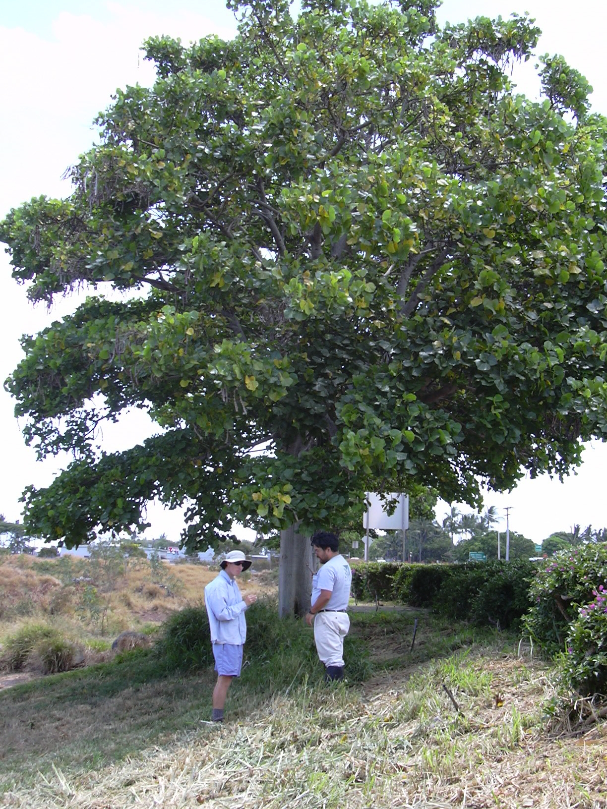 Erythrina variegata (habit with Forest and Mach). Location: Maui, Kahului